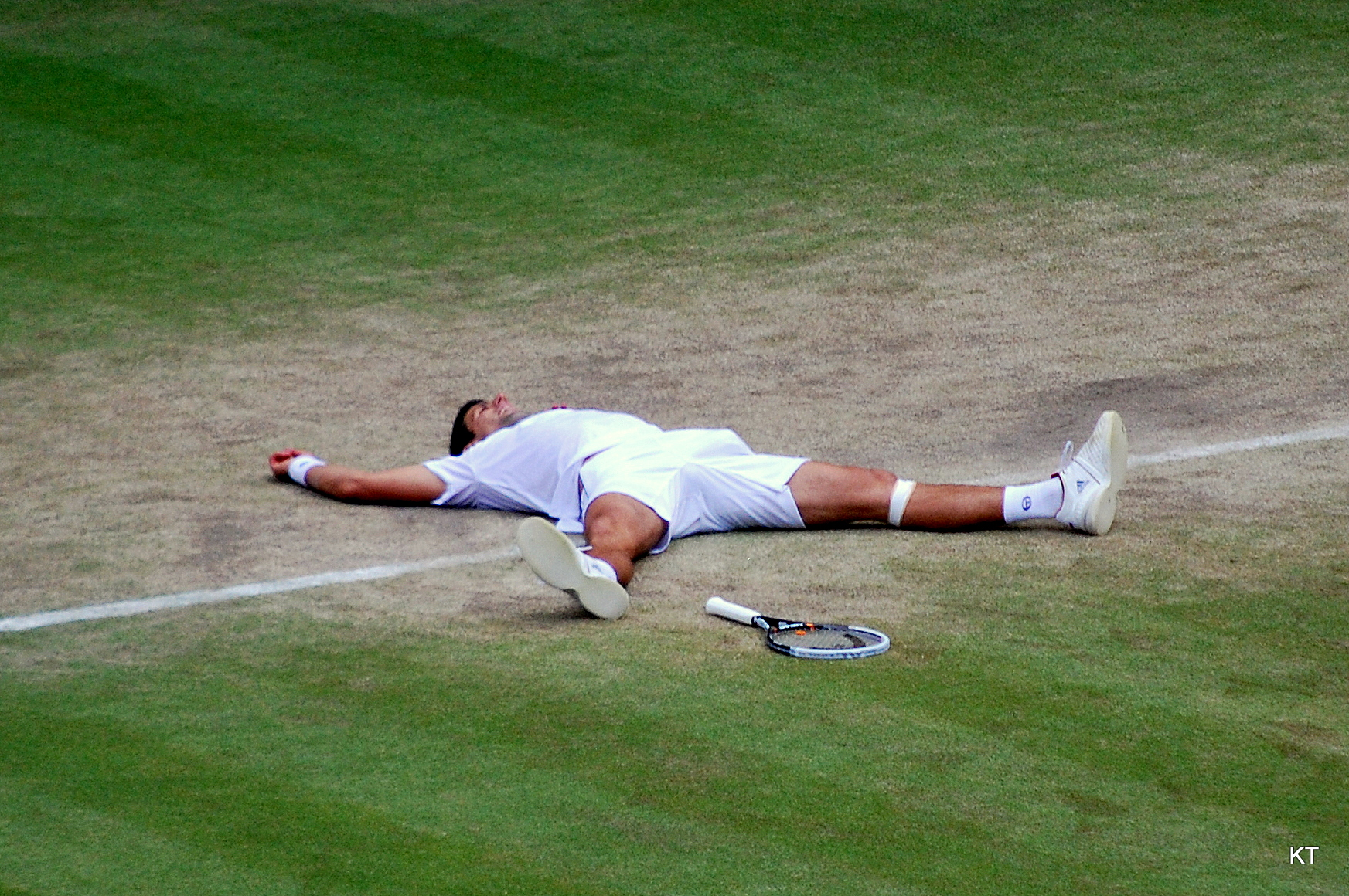 Novak Djokovic wins his semi-final with Jo-Wilfried Tsonga 7-6, 6-2, 6-7, 6-3, on his way to his first Wimbledon title. Day 11 of Wimbledon 2011.